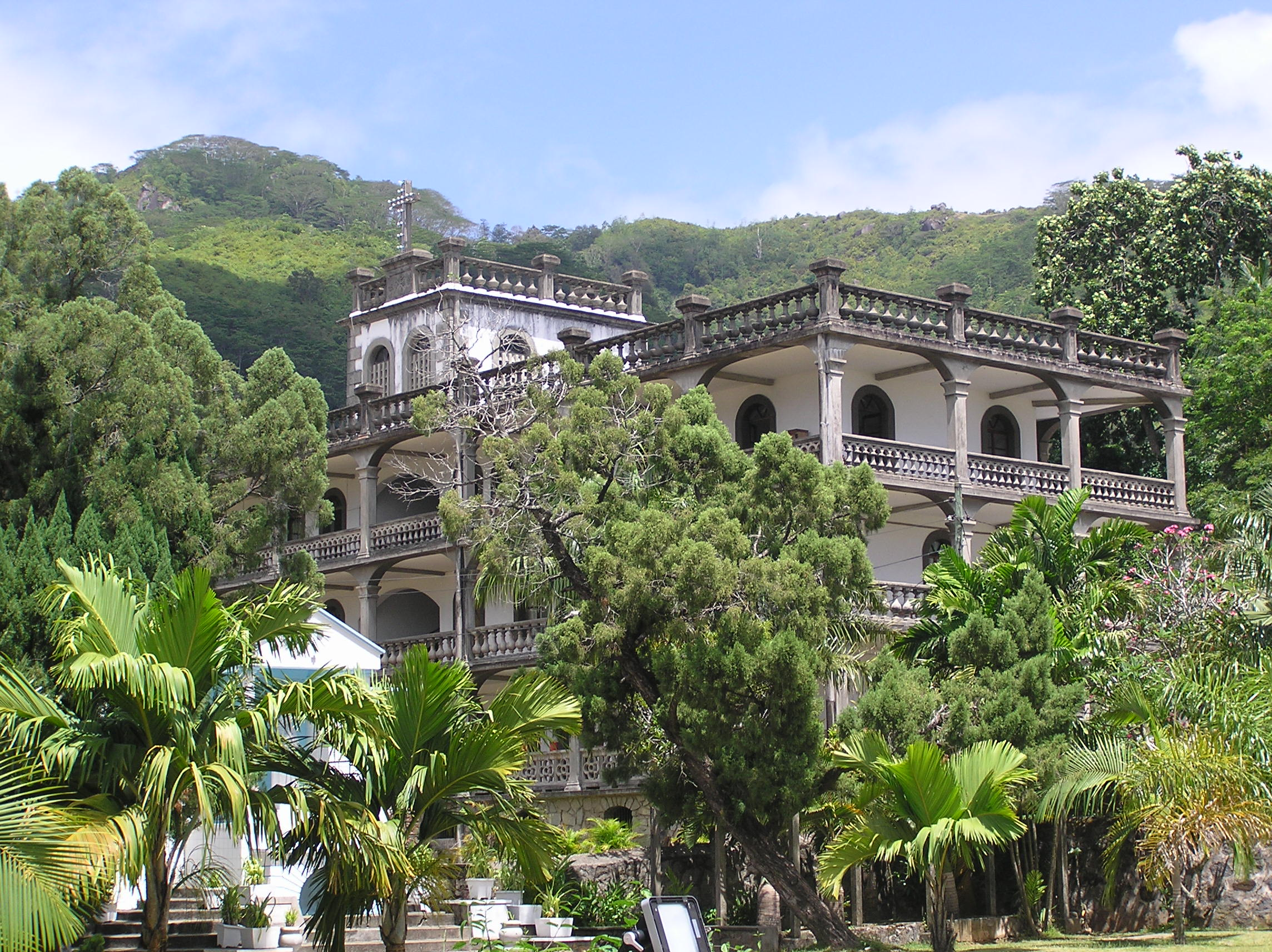 Capuchin House, beside the Immaculée cathedral, Victoria, Seychelles - once a seminary for priests